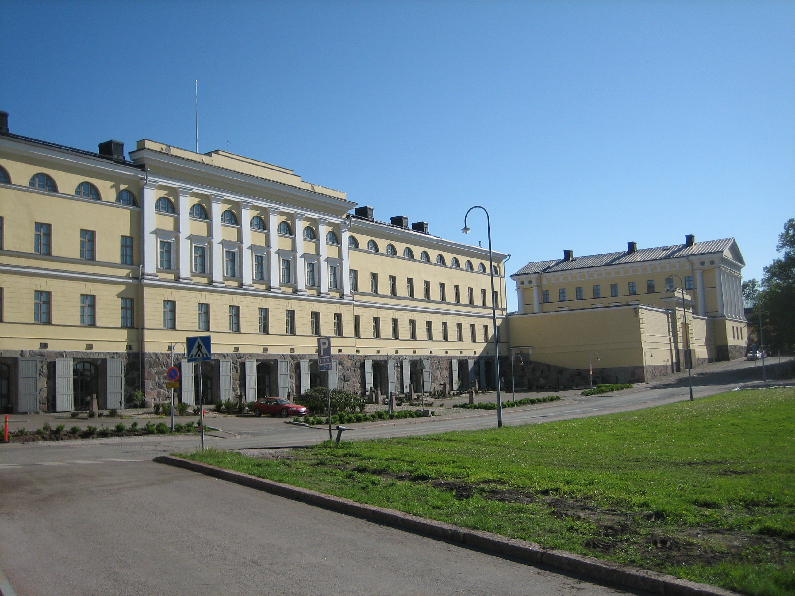 The Ministry for Foreign Affairs in Finland at Katajanokka, Helsinki. The headquarters of the Ministry for the Foreign Affairs is a former barrack of the Russian Navy. The building describes Finland as the meeting point between east and west. The country has belonged to Sweden and Russia before reaching independence in 1917. The building itself was built in 1816–1820. It was planned by architect C.L. Engel.